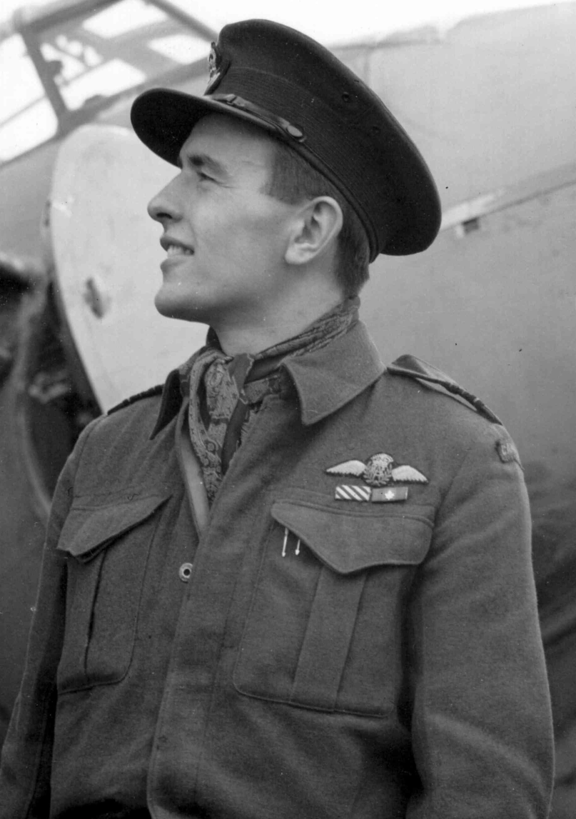 Russ Bannock (l) and FO Robert Bruce (r).